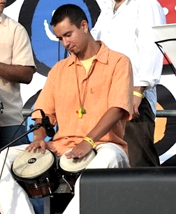 Lld: Matīss Akuraters performing in Riga City Festival 2009 as a member of band Verdadero